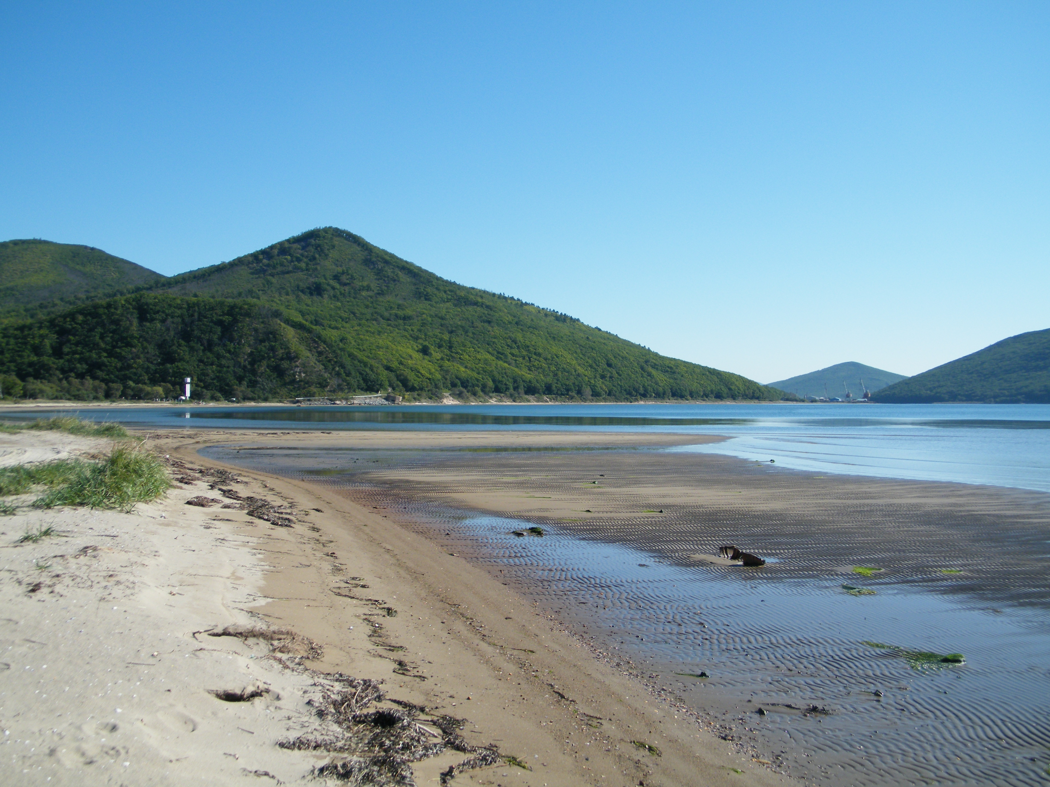 Залив Ольги, отлив